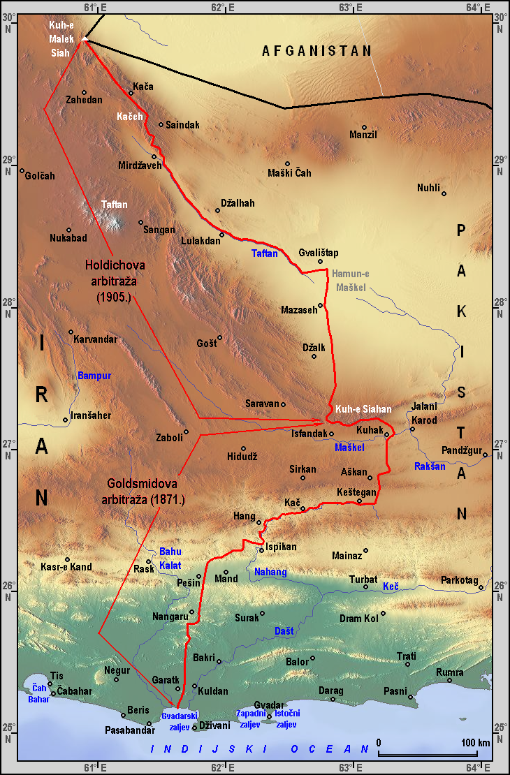 Iran-Pakistan border with Croatian descriptionHrvatski: Iransko-pakistanska granica